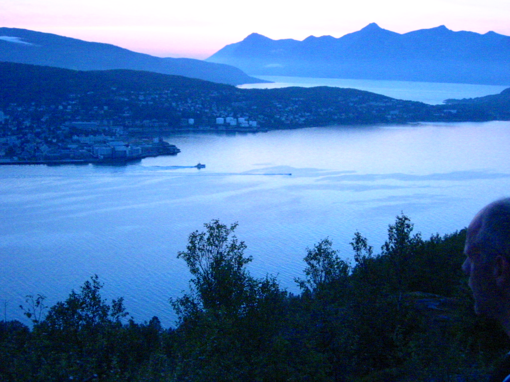 Northern part of Harstad at night. View from Gangsåstoppen, August 1 2004 at 23.11. This picture was taken by myself, no rights reserved. Orcaborealis 15:04, 29 November 2005 (UTC) Category:Images of Norway